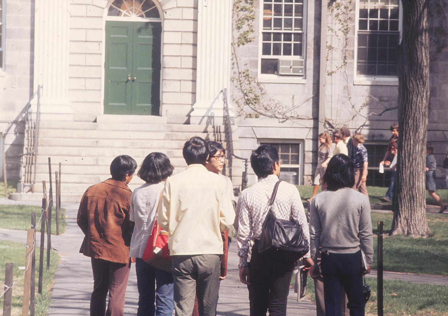 A tour of the Harvard University campus held around noon on a Saturday in late April 1976. The tour is being led by a Harvard senior (center, partly facing camera). The group is walking around Harvard Yard; another tour may be in progress in the background.